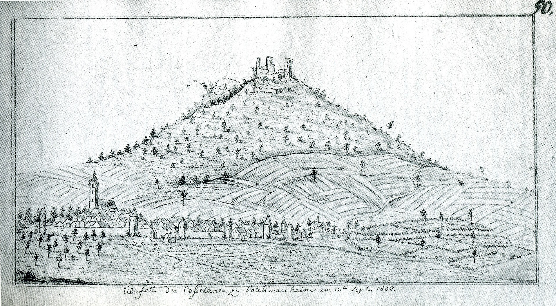 Volkmarsen (Germany) town and former castle